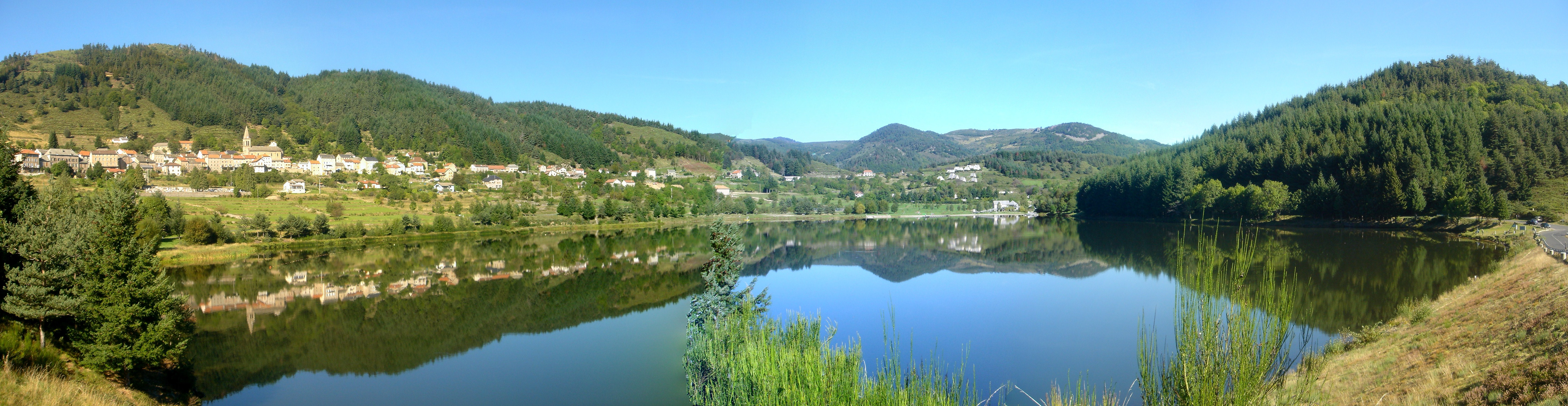 Panoramic view of Saint-Martial (Ardèche, France) and lake